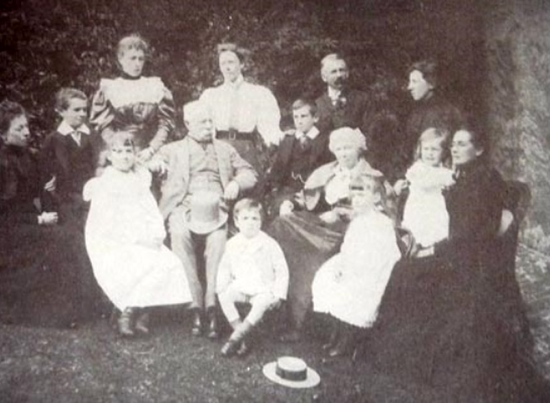 Llewellyn family of Court Colman, Wales, 1890